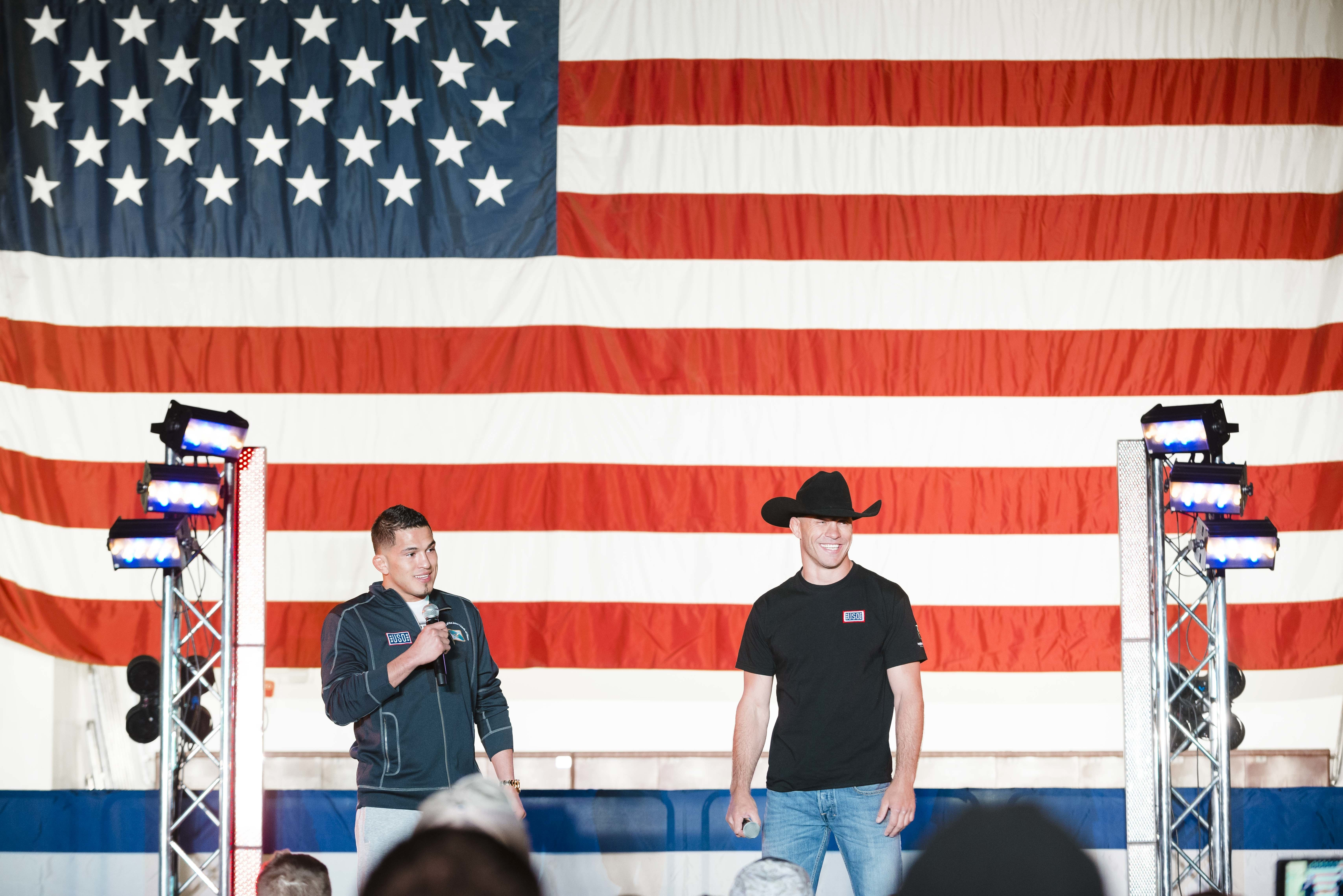 UFC fighters Donald "Cowboy" Cerrone and Anthony "Showtime" Pettis stand on stage during a Q-and-A session at a USO show on Joint Base Elmendorf-Richardson, Alaska, March 12, 2016. Gen. Selva and country music star Craig Morgan, Miss America 2016 Betty Cantrell, Carolina Panthers cornerback Charles "Peanut" Tillman, and UFC fighters Donald "Cowboy" Cerrone and Anthony "Showtime" Pettis are traveling to seven countries in eight days visiting service members as part of the USO Spring Tour. (DoD photo by U.S. Army Staff Sgt. Sean K. Harp) Unit: Office of the Chairman of the Joint Chiefs of Staff